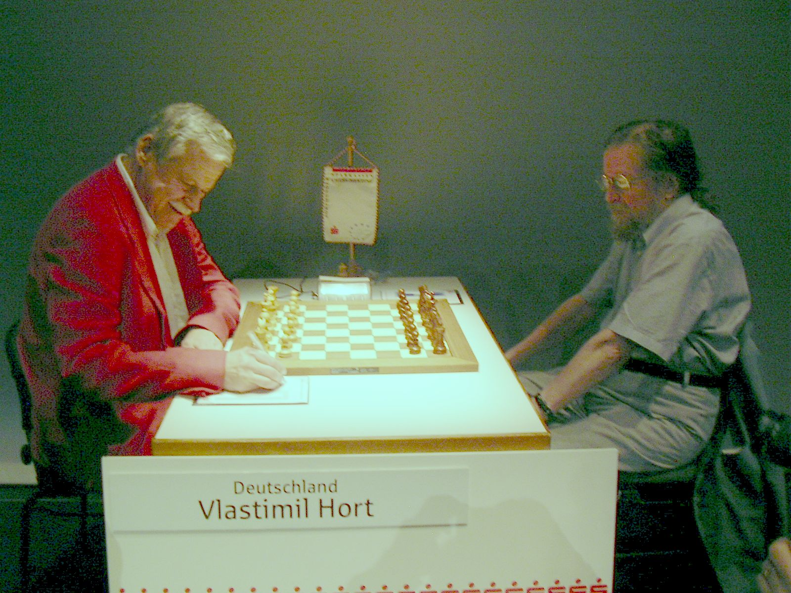 Vlastimil Hort and Heikki Westerinen, Dortmunder Schachtage 2007, Photographer Gerhard Hund.